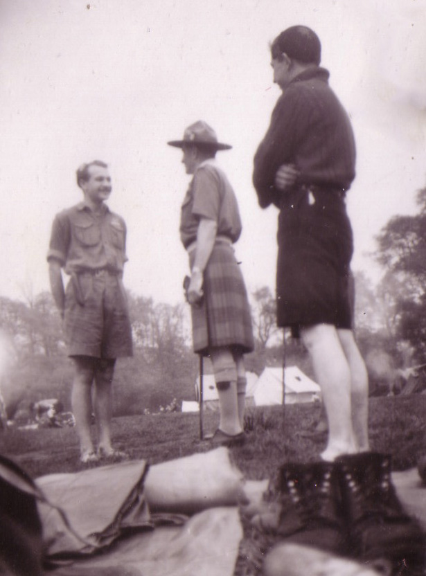 Scouts from the Norwegian scout group 18. Bergen meets Chief Scout of the British Commonwealth and Empire, Lord Rowallan in Gilwell Park